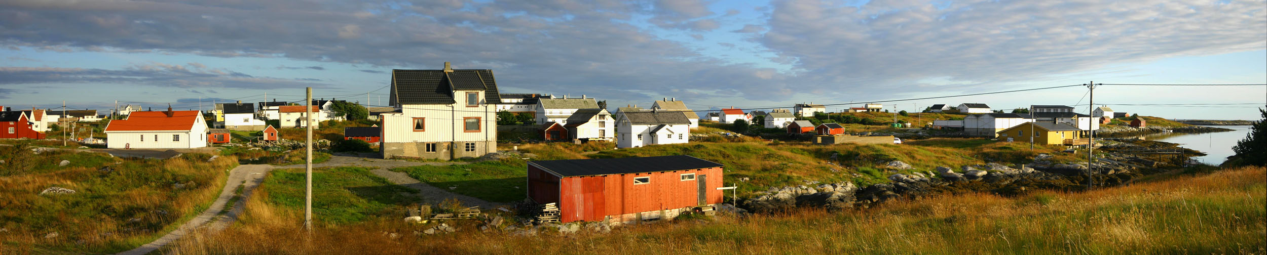 Titran in the evening